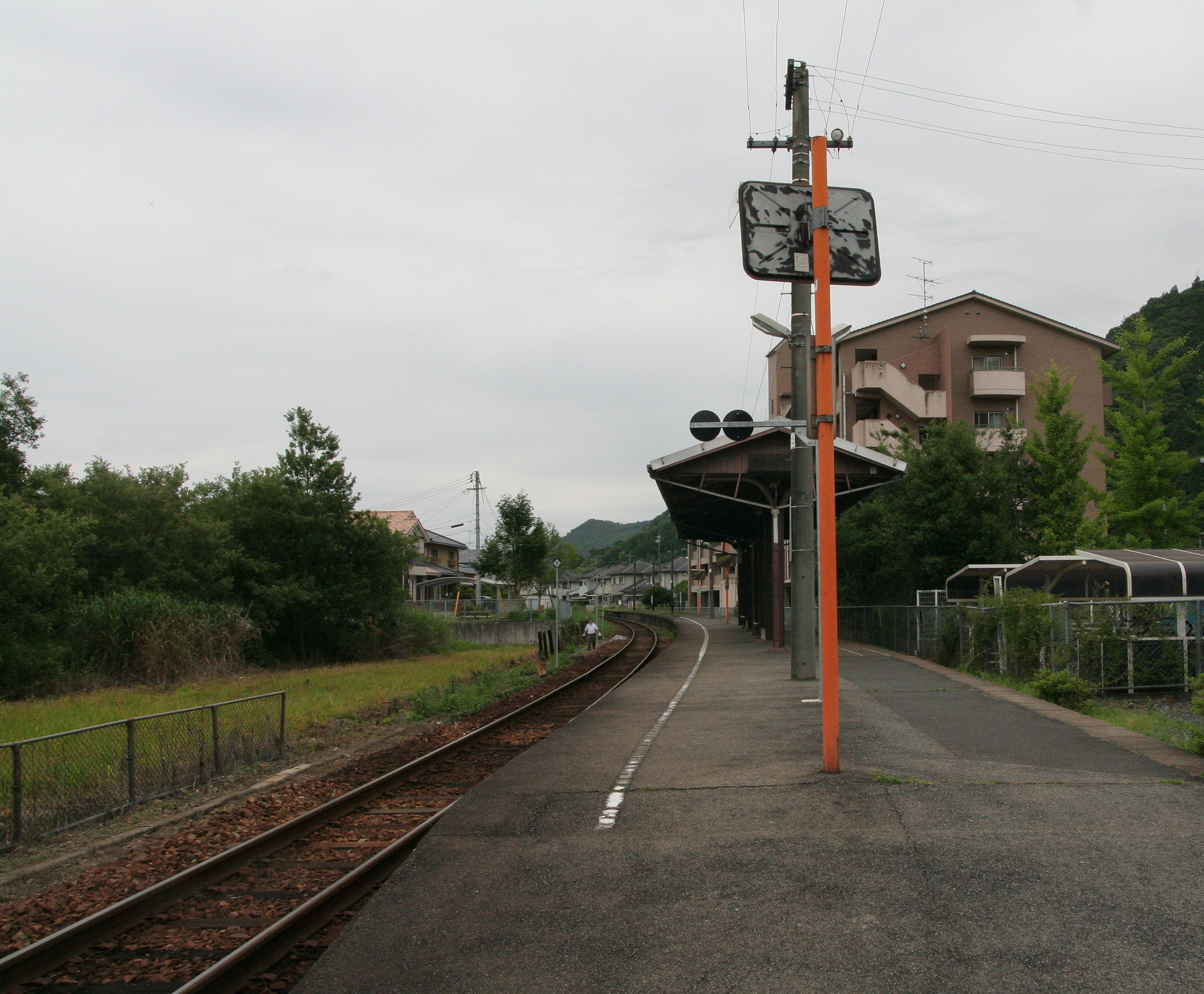 West Japan Railway Company Kishin Line Hayashino sta enclosure